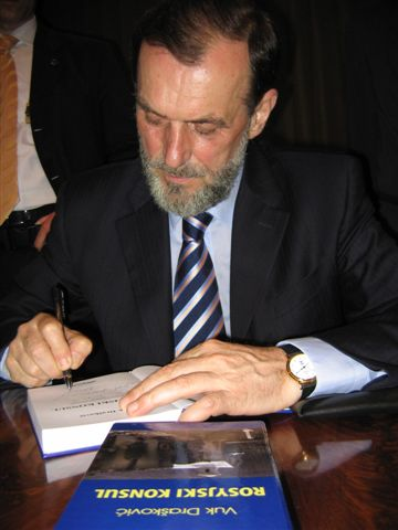 Vuk Drašković (b. 1946), Serbian writer and politician